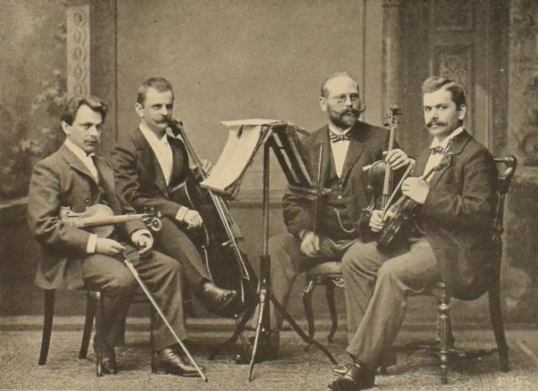 Max Lewinger's String Quartet: Max Lewinger, Georg Wille, Bernhard Unkenstein, Max Rother